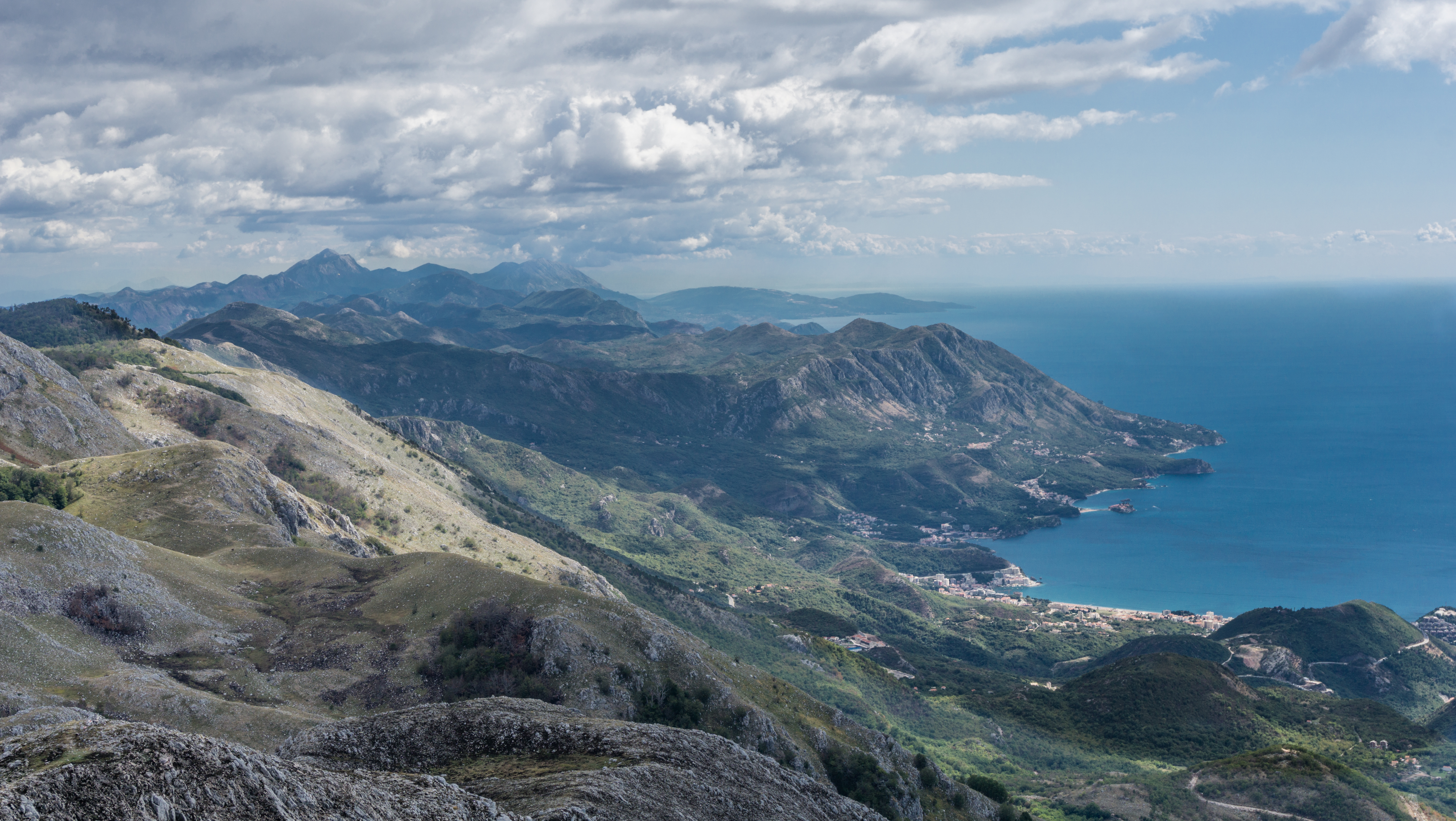 Montenegrin coast, view from Babina glava. Picture taken during hiking the Primorska Planinarska Transverzala (PPT; Mountaineering Coastal Transversal) in Montenegro